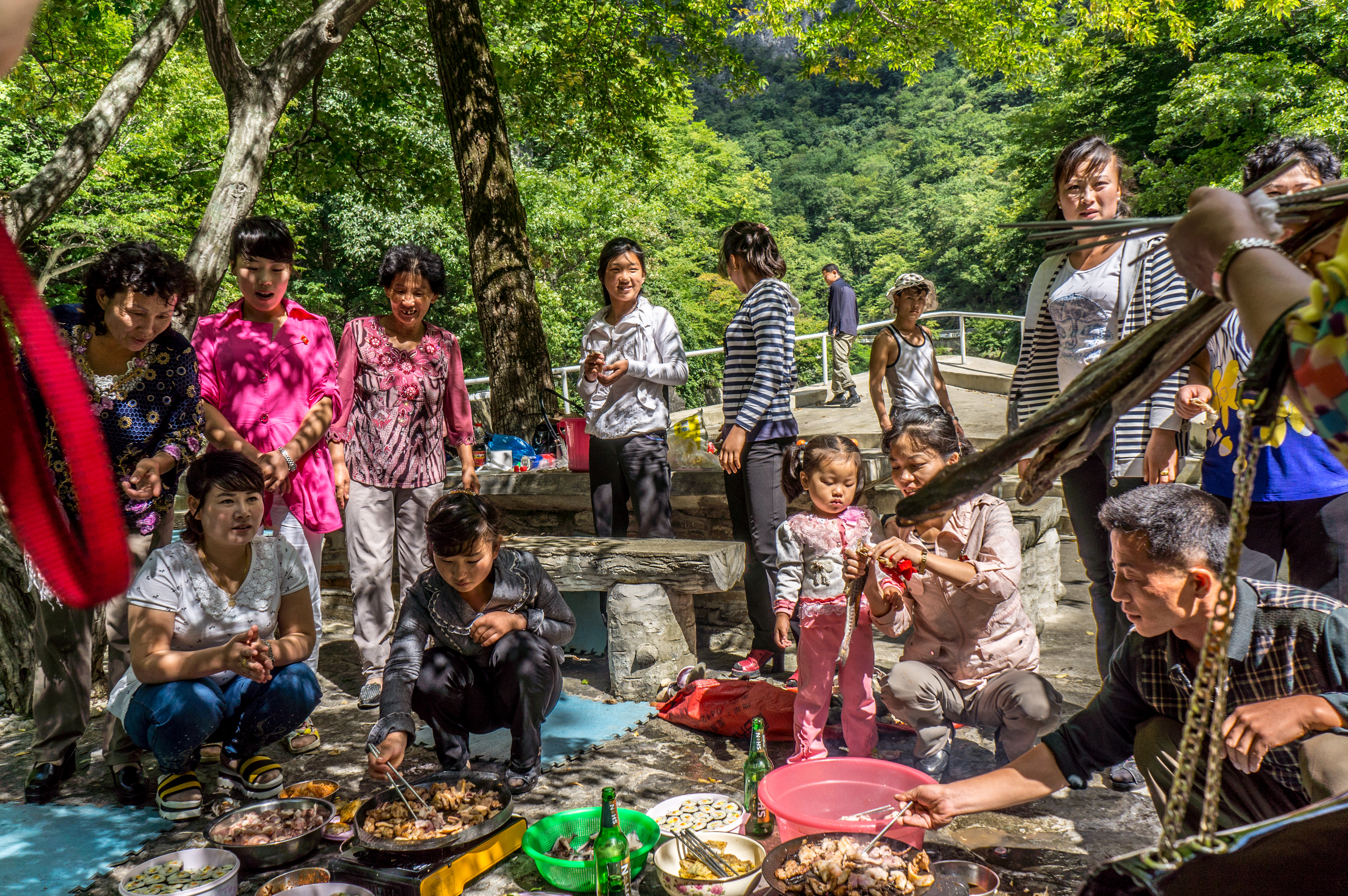 Korean Family BBQ Picnic